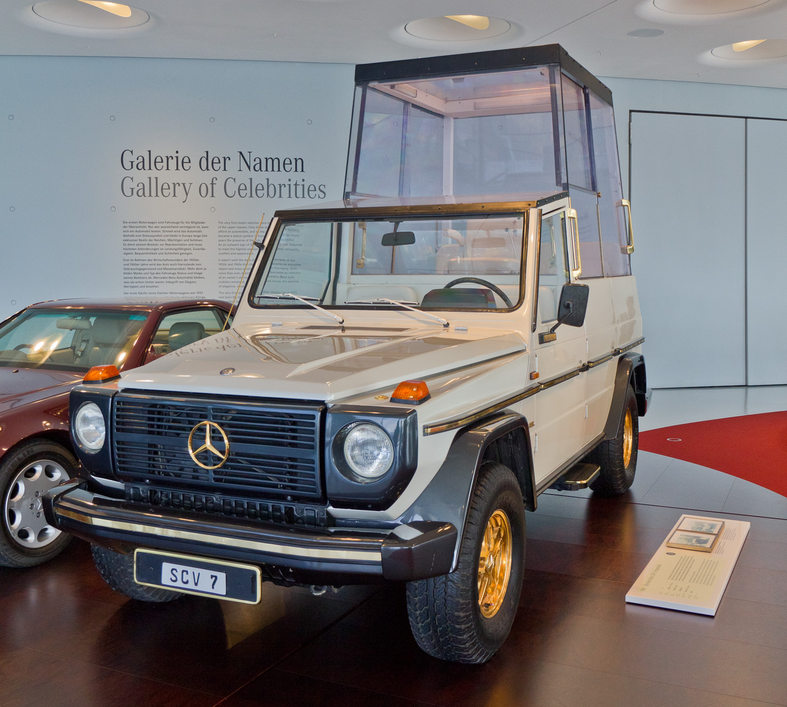 Mercedes-Benz 230 G built for Pope John Paul II 1980